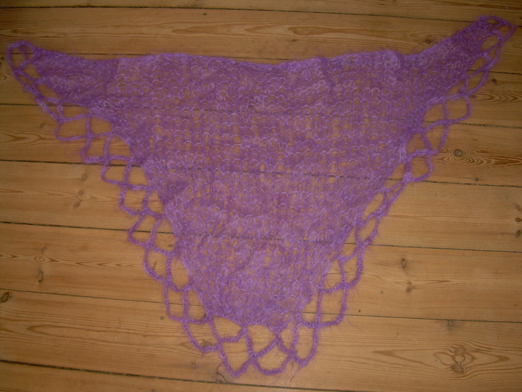 Knitted shawl